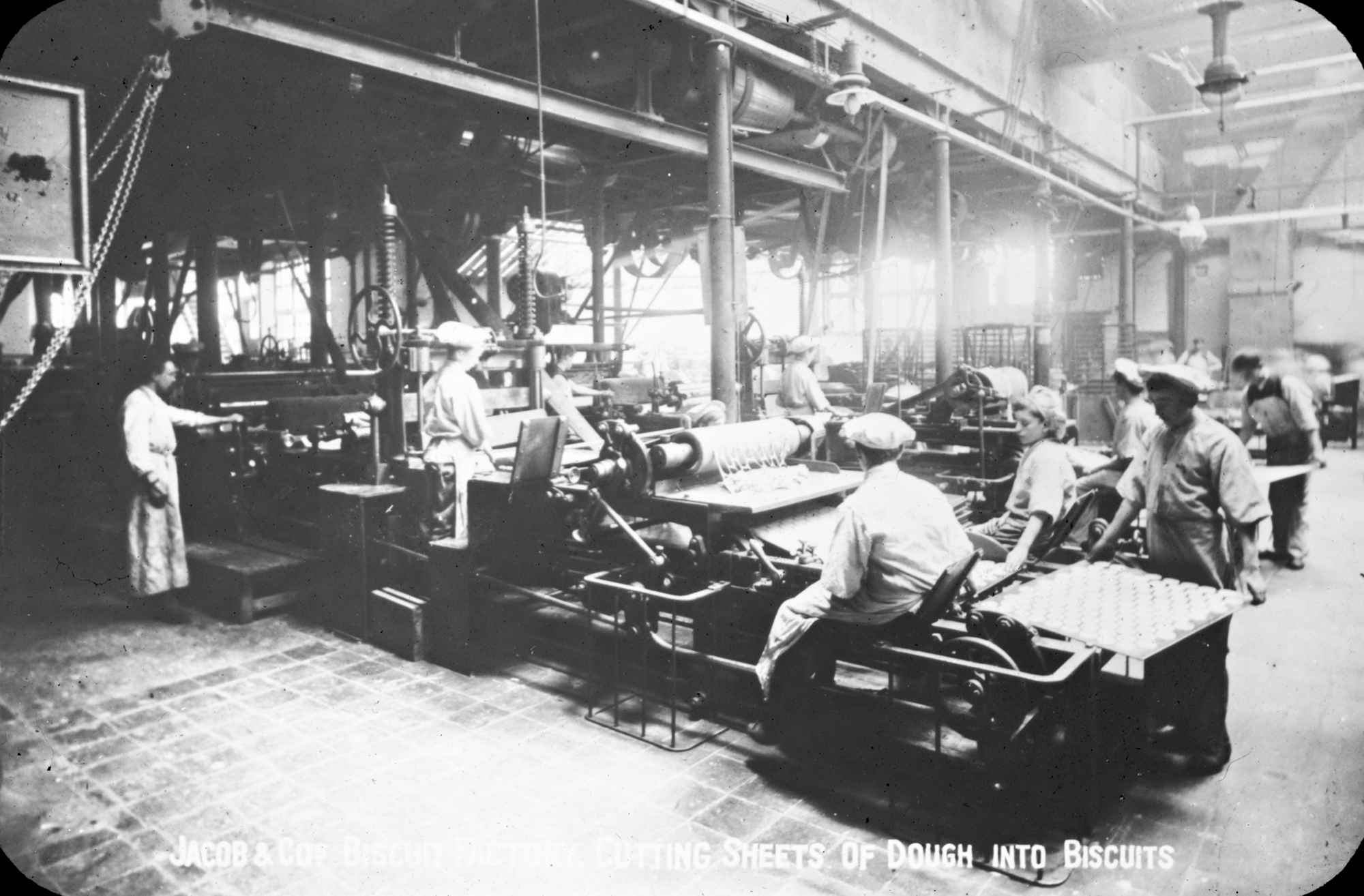 "Jacob's biscuit factory. Men and women at machines/benches, cutting dough into biscuits" The subject is pretty clear here: The industrious men and ladies of the Jacobs Biscuit Factory. Jacobs were a major employer in turn-of-the-century Dublin, so it may be difficult to identify anyone individually (though it someone can point-out their granny, I will happily eat my hat/fez). A pin in the map might be nice though :) Photographer: TH Mason Contributor: Thomas H. Mason & Sons photographers Collection: Mason Photographic Collection Date: 1890-1910 NLI Ref: M1/12 You can also view this image, and many thousands of others, on the NLI’s catalogue at "